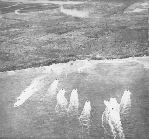 The first wave LVT's are leaving Beach White 1, second wave is approaching.